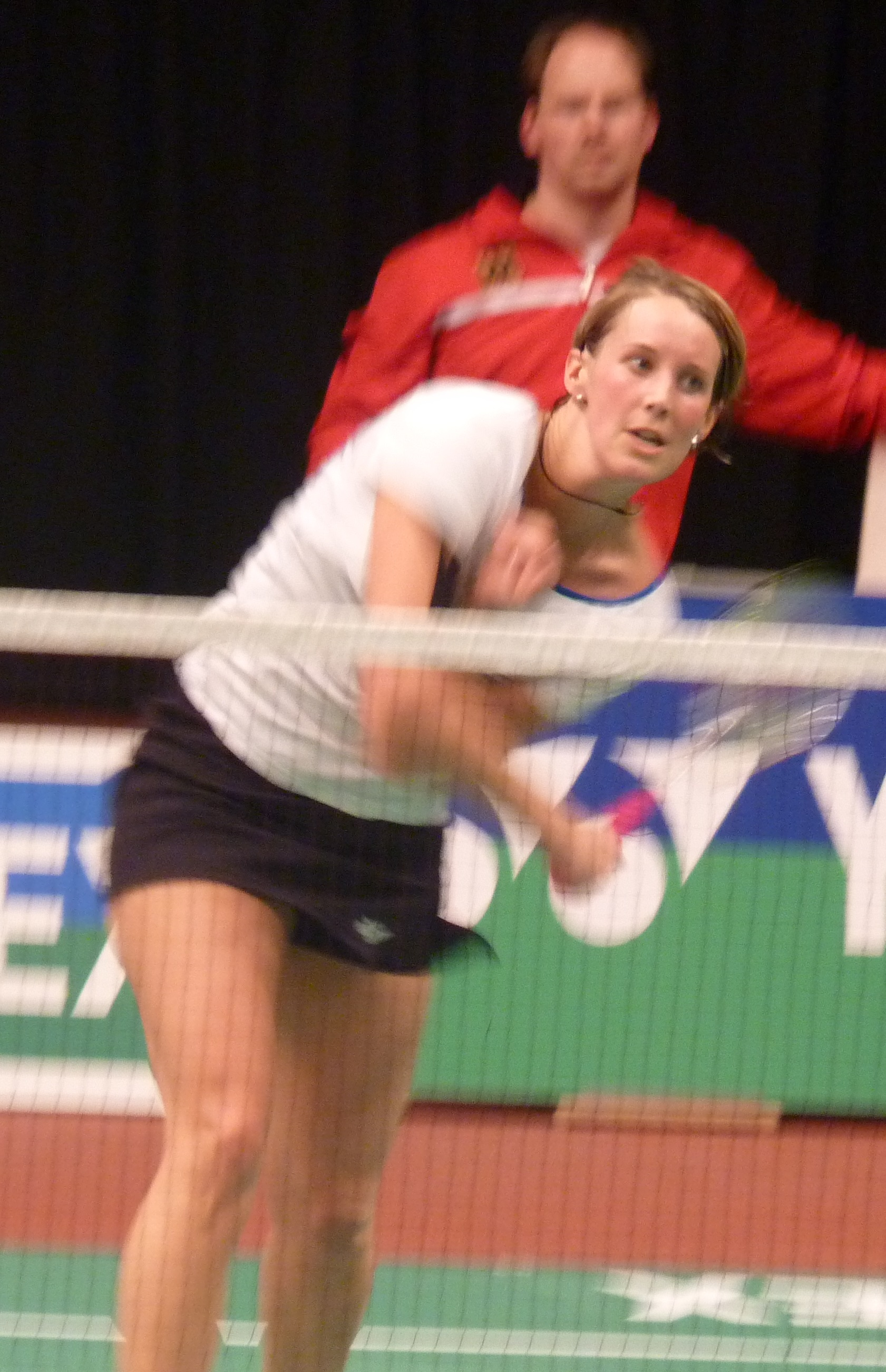 Birgit Michels (GERMANY)